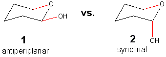 Demonstration of anomeric effect and favorisation of synclinal conformation